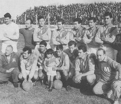 Arsenal de Sarandí 1964 team that won the Primera C championship, two years after having achieved the promotion to the division.